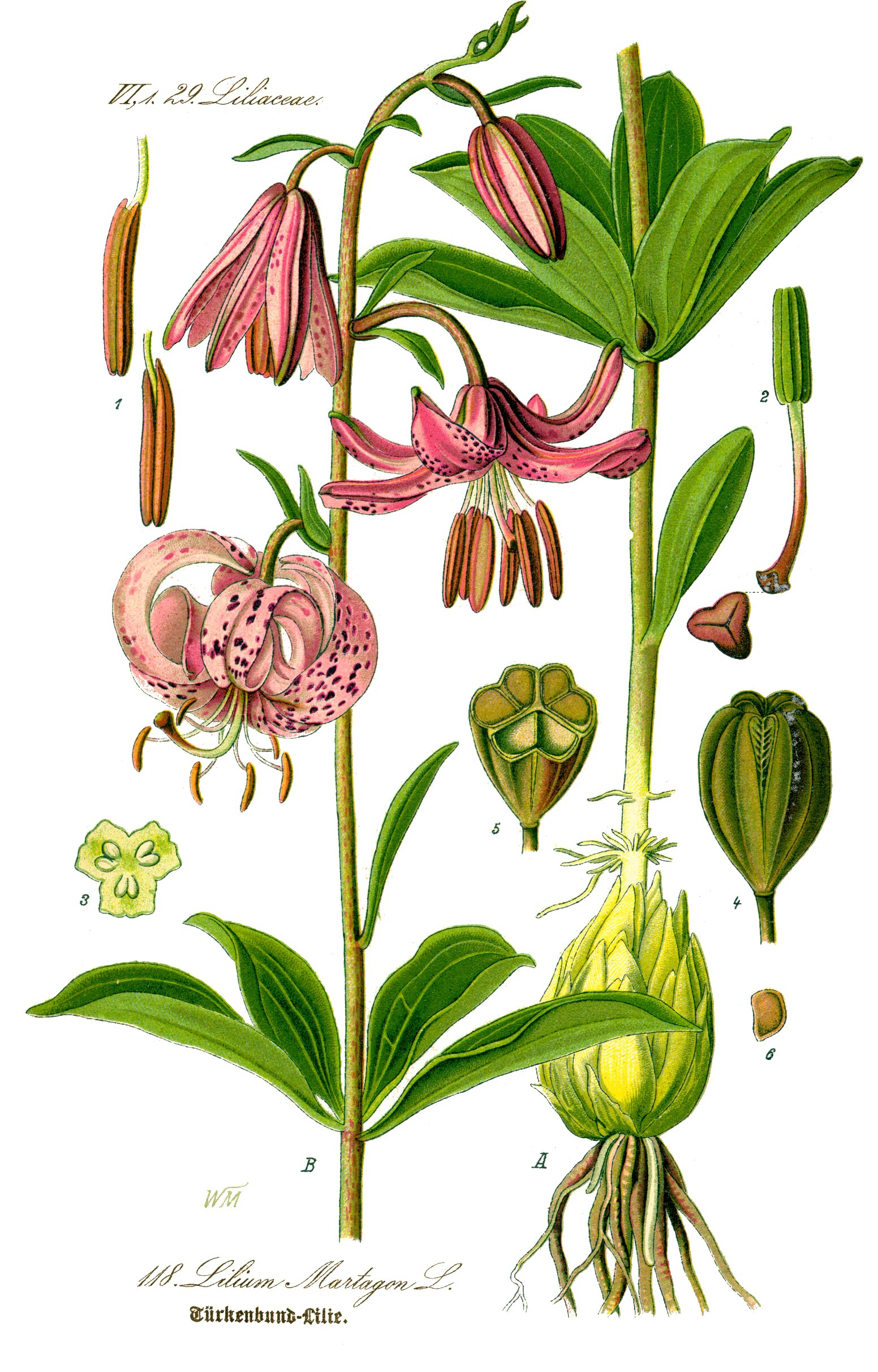 Name Lilium martagon Family Liliaceae